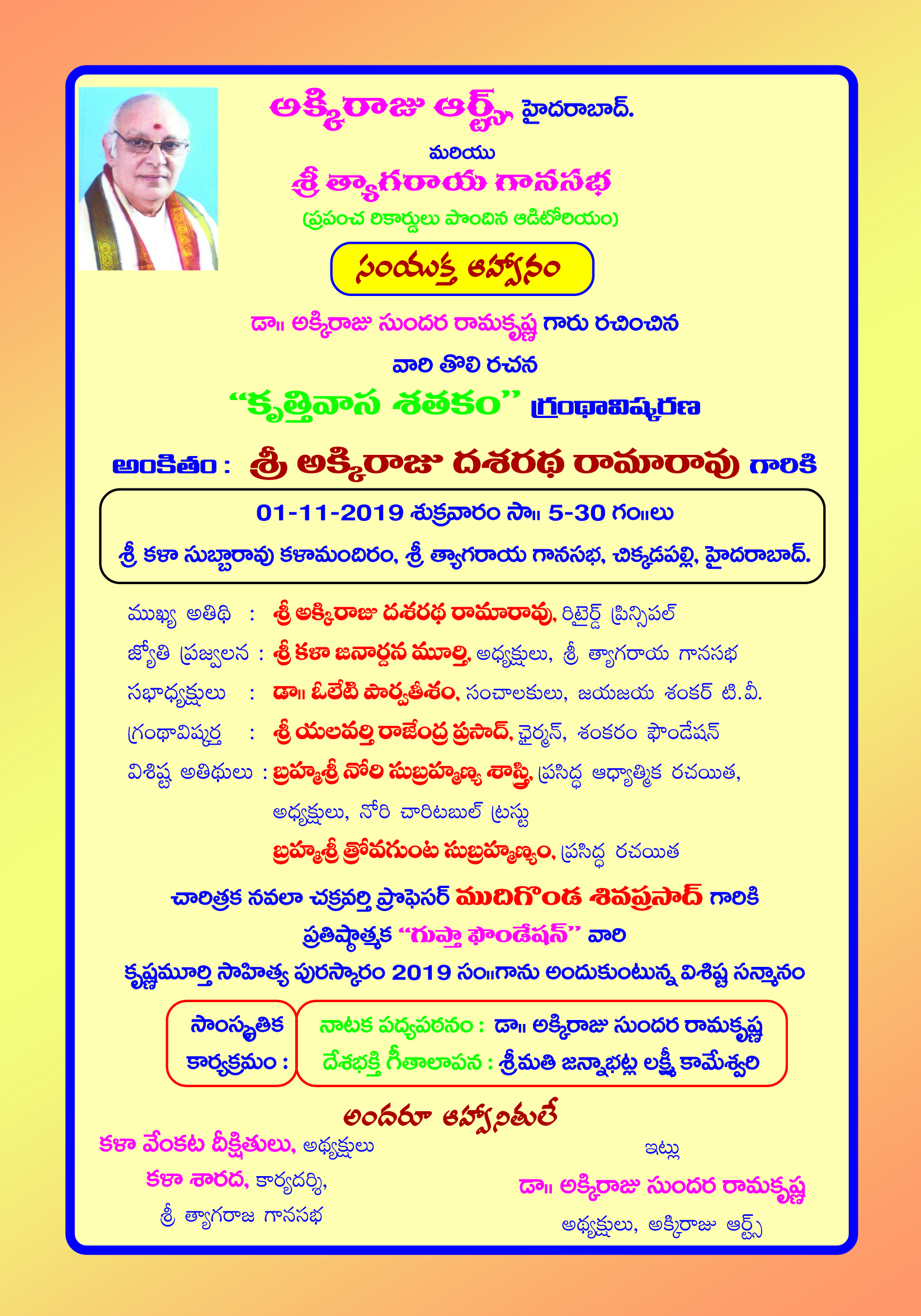 Akkiraju Book inauguration Invitation